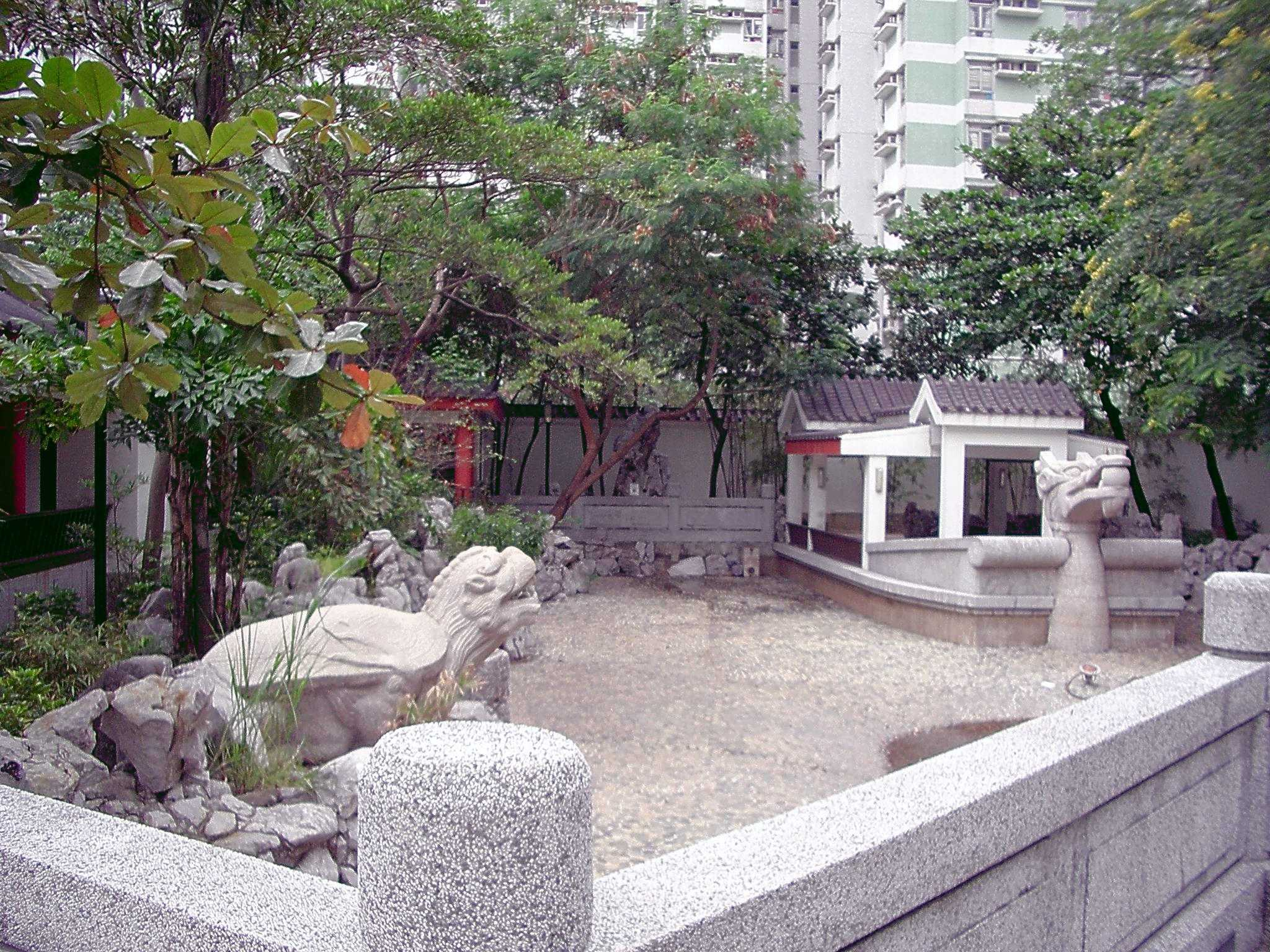 Stone Dragon Boat Pavilion at Han Garden, Hong Kong